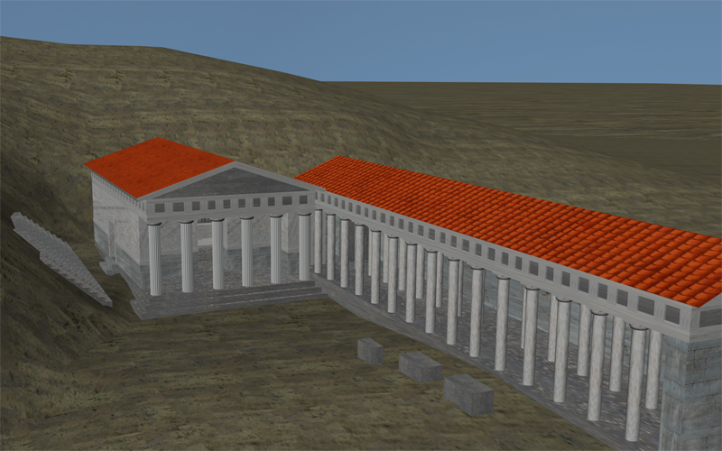 3d reconstructionn of the temple of Despoina at Lycosura